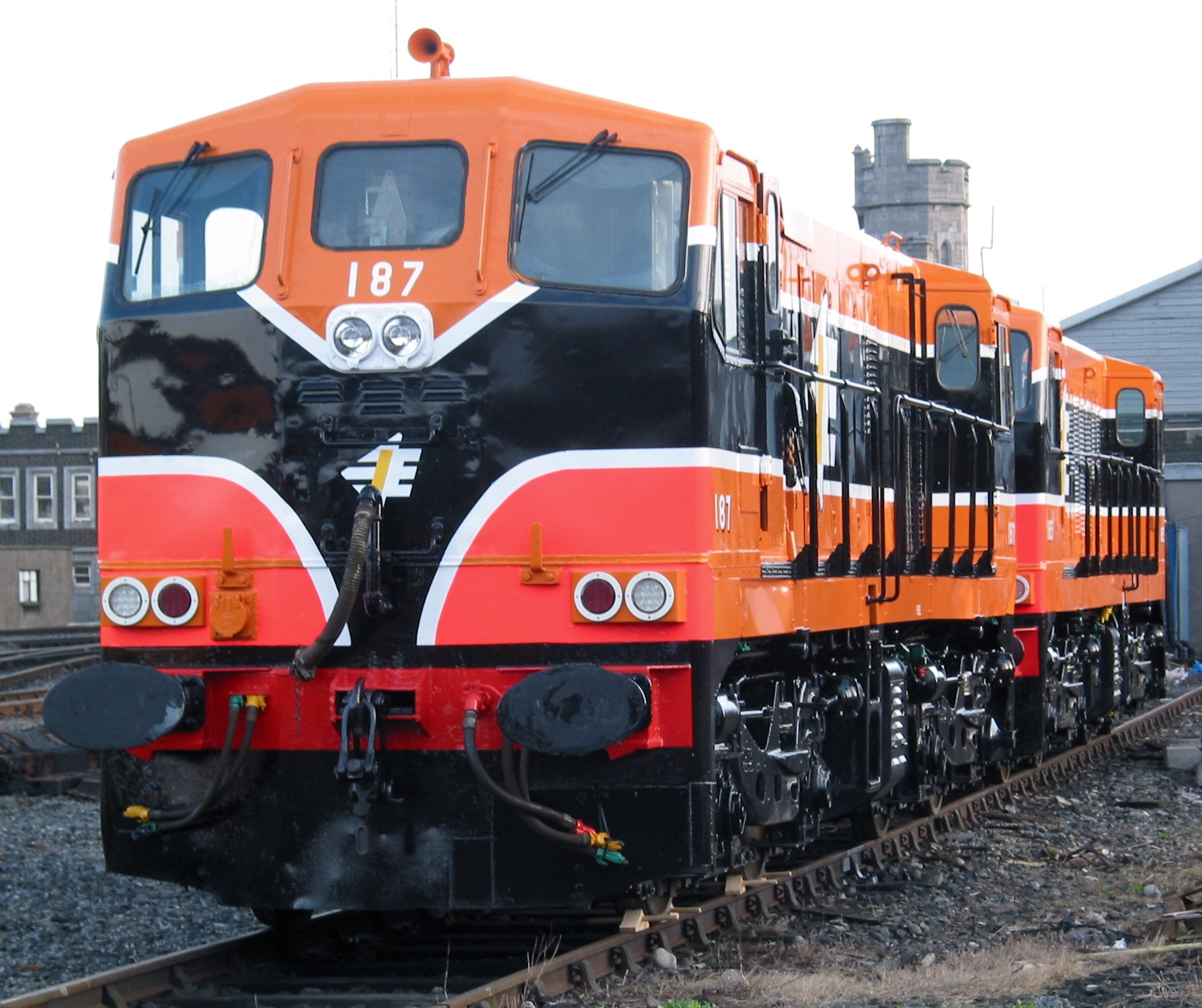 CIE Class 181 locomotives at Inchicore Works